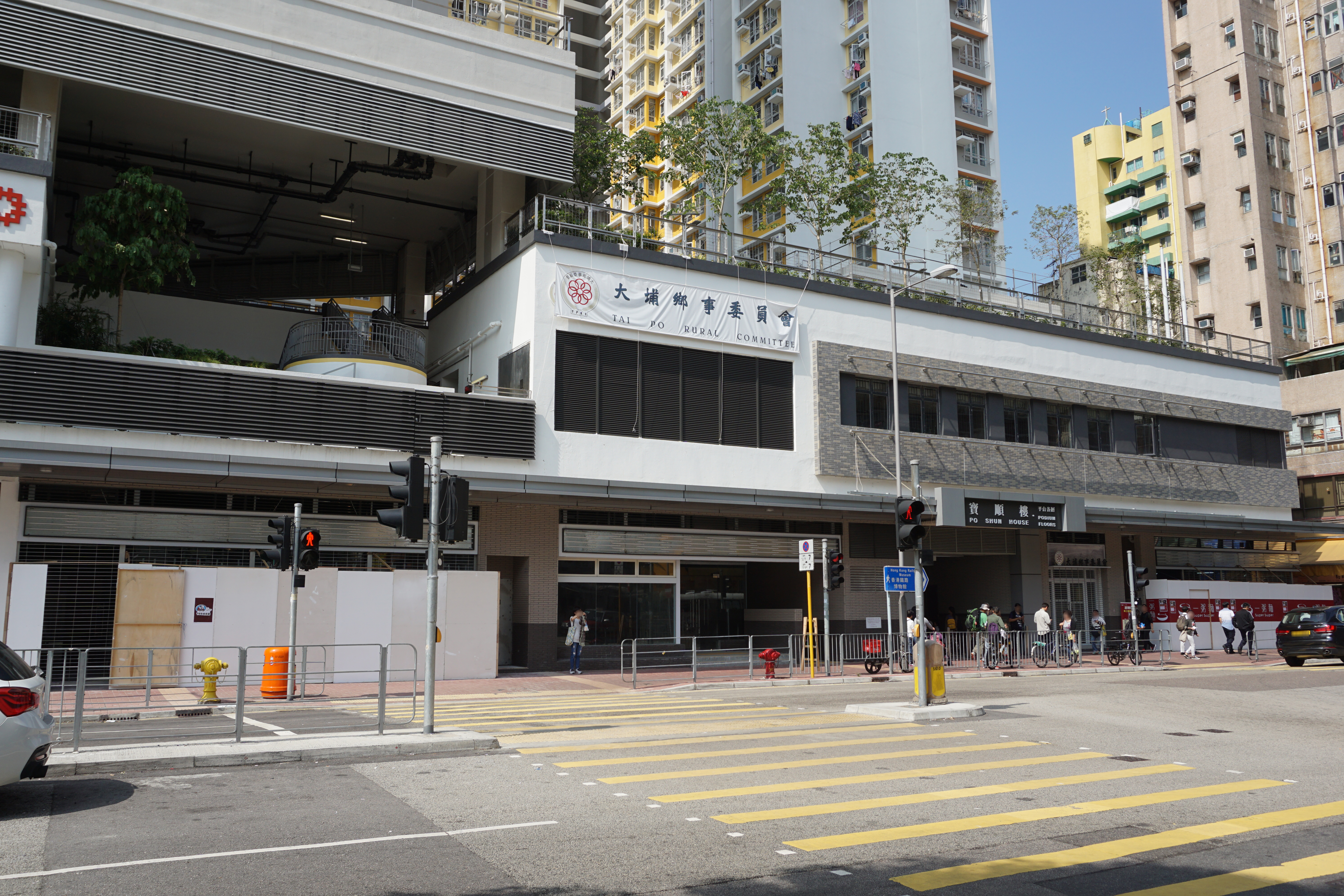 Po Heung Estate in Tai Po, Hong Kong.